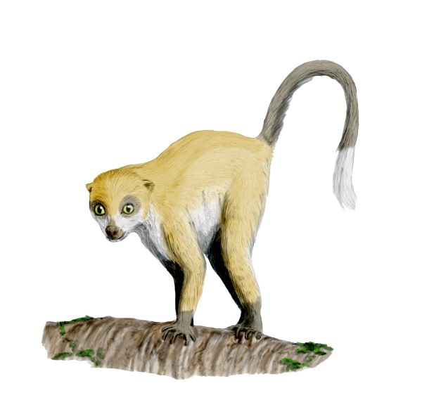 Darwinius